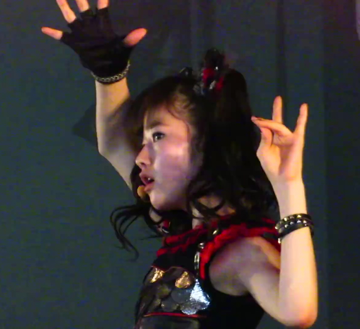 Babymetal - Megitsune live @ Fortarock 2016